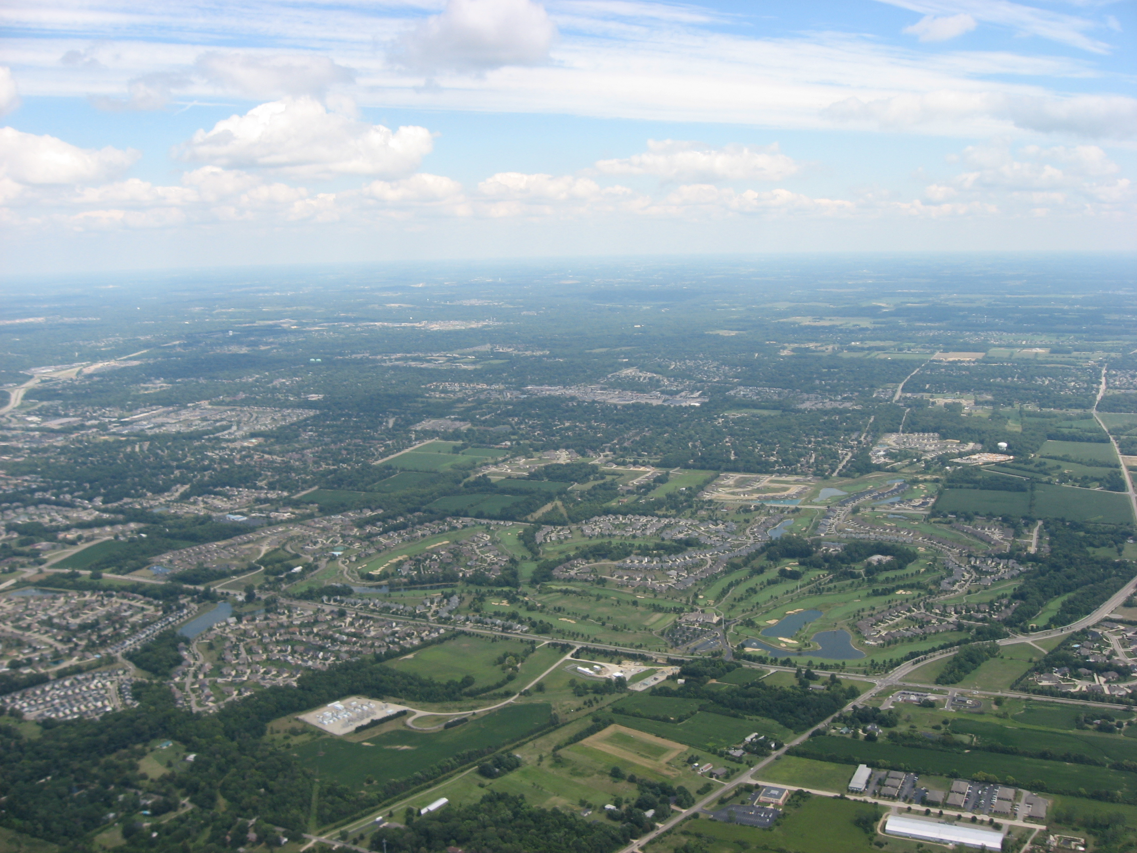 Aerial view of southern Washington Township, Montgomery County, Ohio, United States, with the city of Centerville in the distance. The major intersection on the right side of the picture, south of the Yankee Trace Golf Course, is that of Yankee Street and Austin/Social Row Road. Picture taken from a Diamond Eclipse light airplane at an altitude of 3,450 feet MSL and a bearing of approximately 250º.